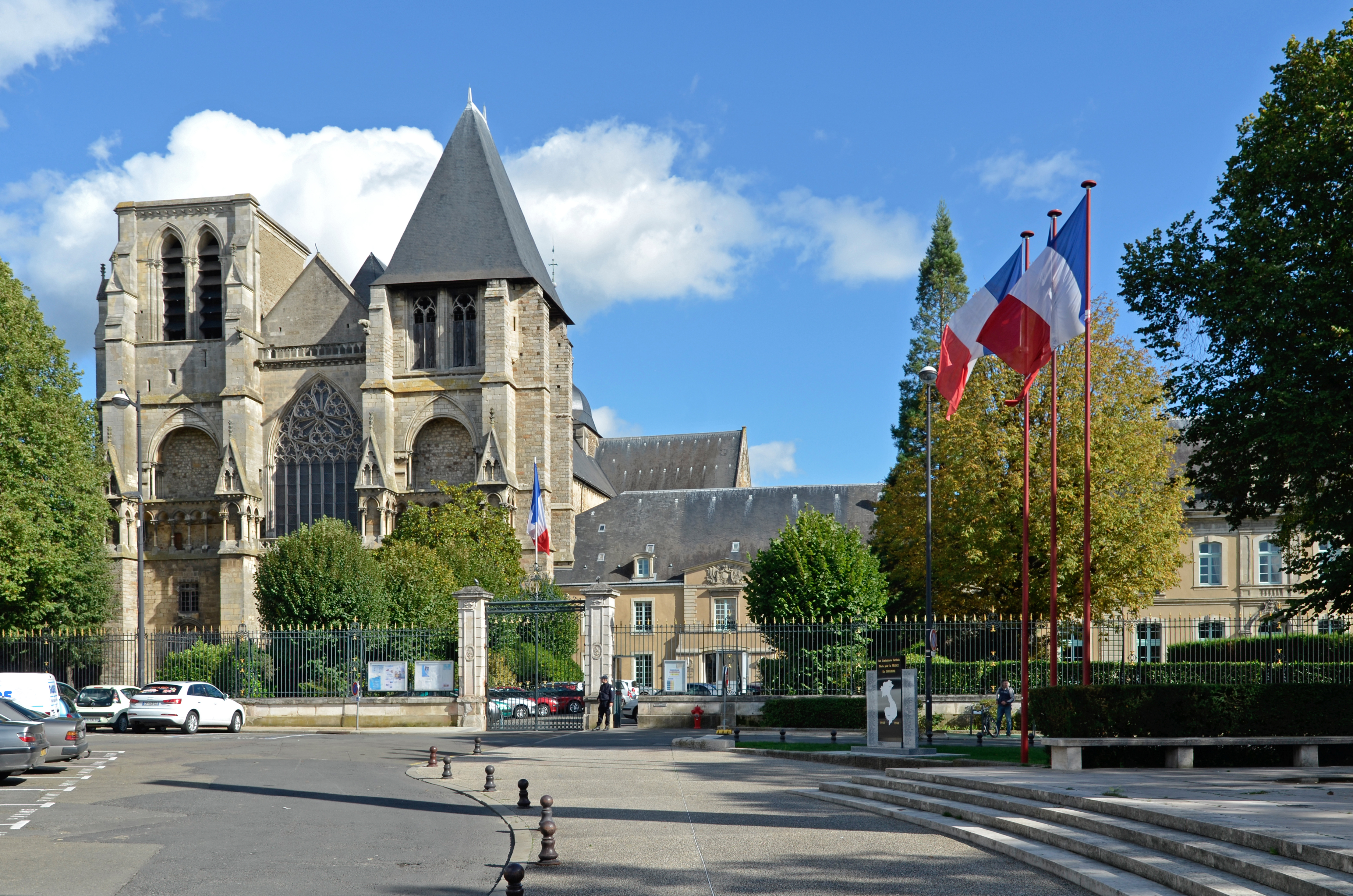 Notre-Dame de la Couture church and ancient abbey convent now the prefecture. - Le Mans, France. .